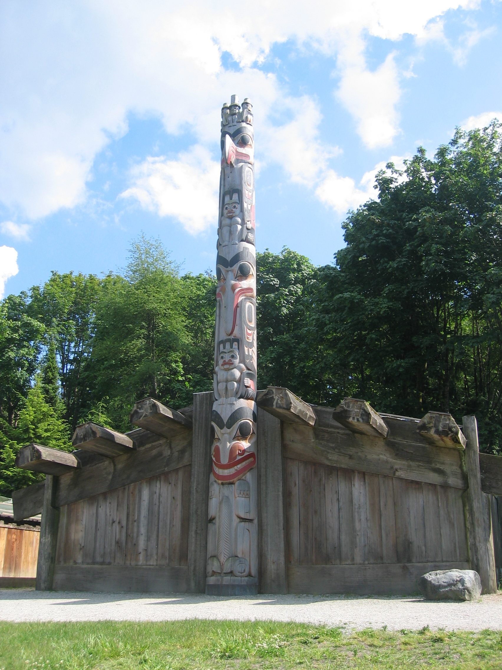 First Nations totem pole and longhouse at the Museum of Anthropology at the University of British Columbia. University Endowment Lands, BC, Canada.